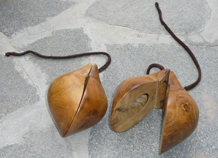 chakara, canarian musical instrument